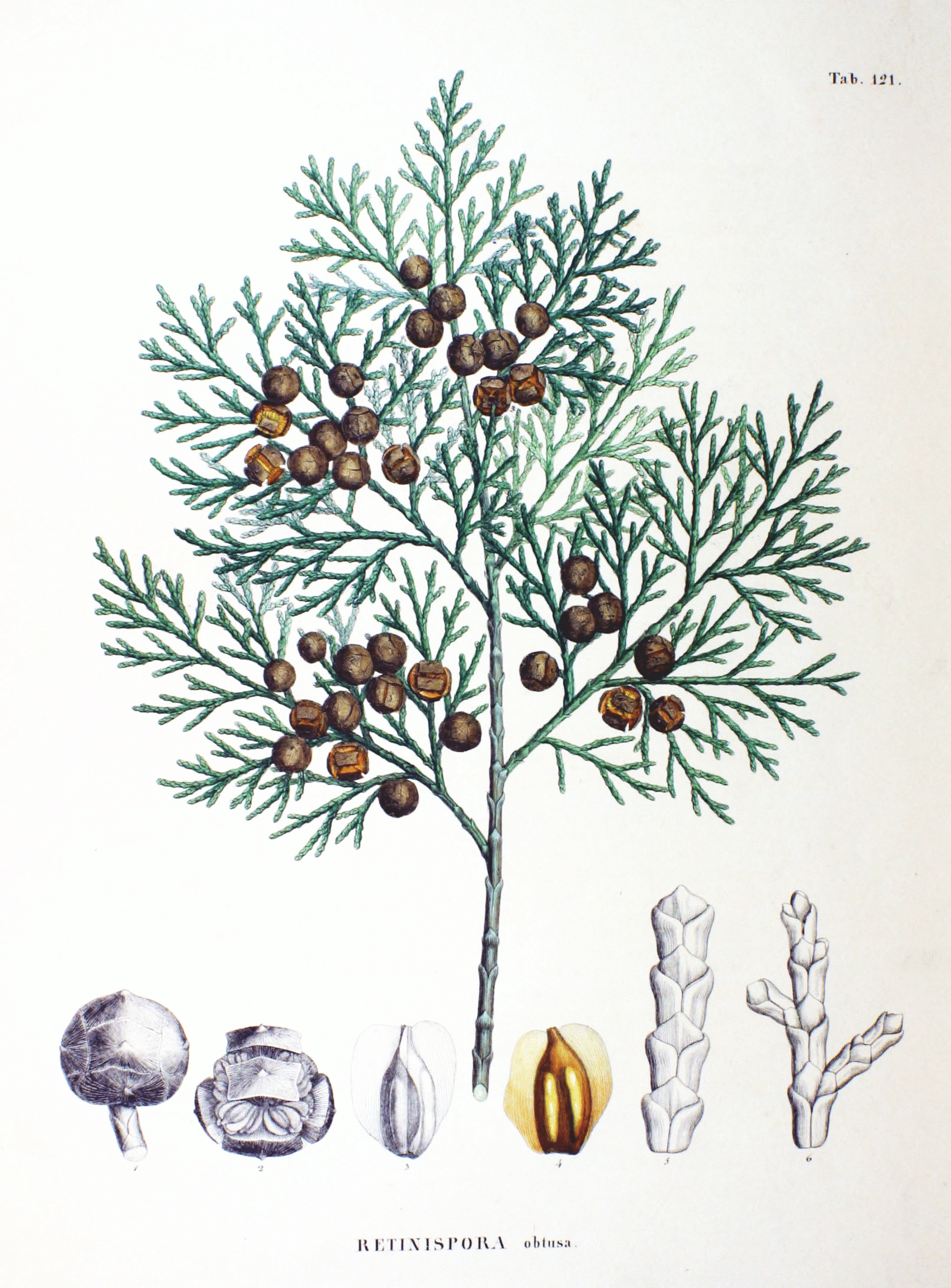 Plate from book